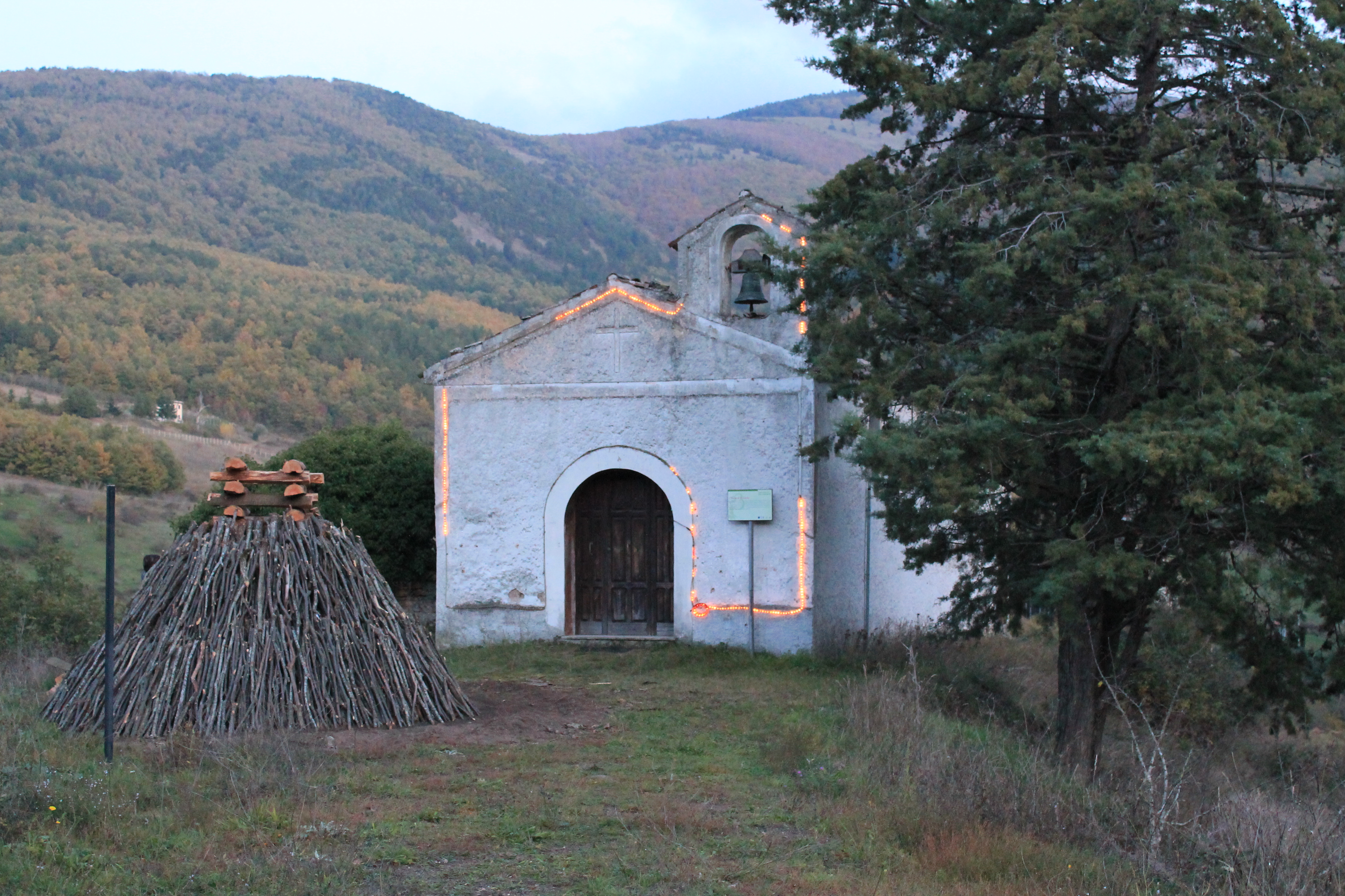 This is the Santa Lucia's church a very small church in the countryside of Pignola, Italy.